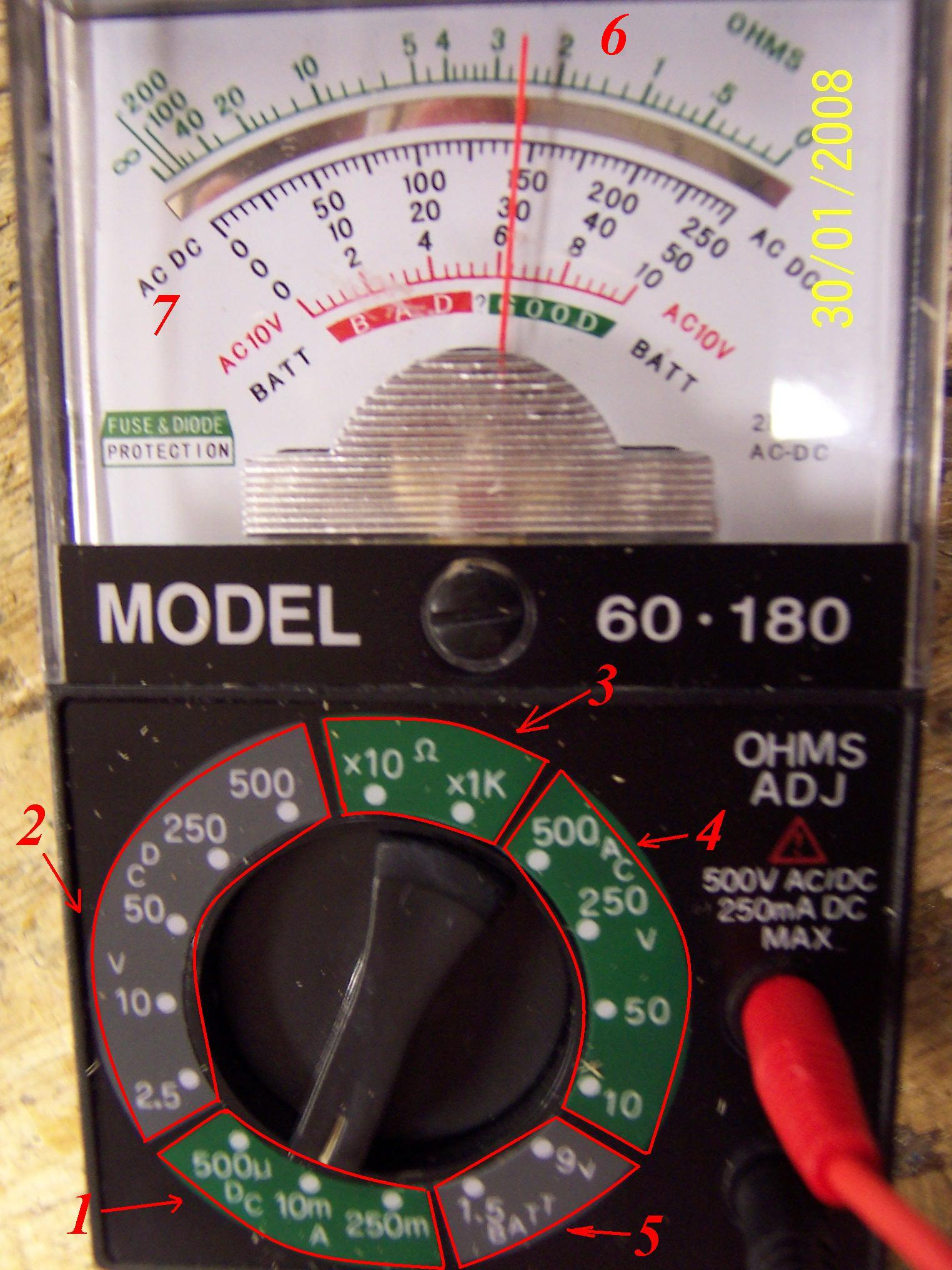 Photo of my tester.